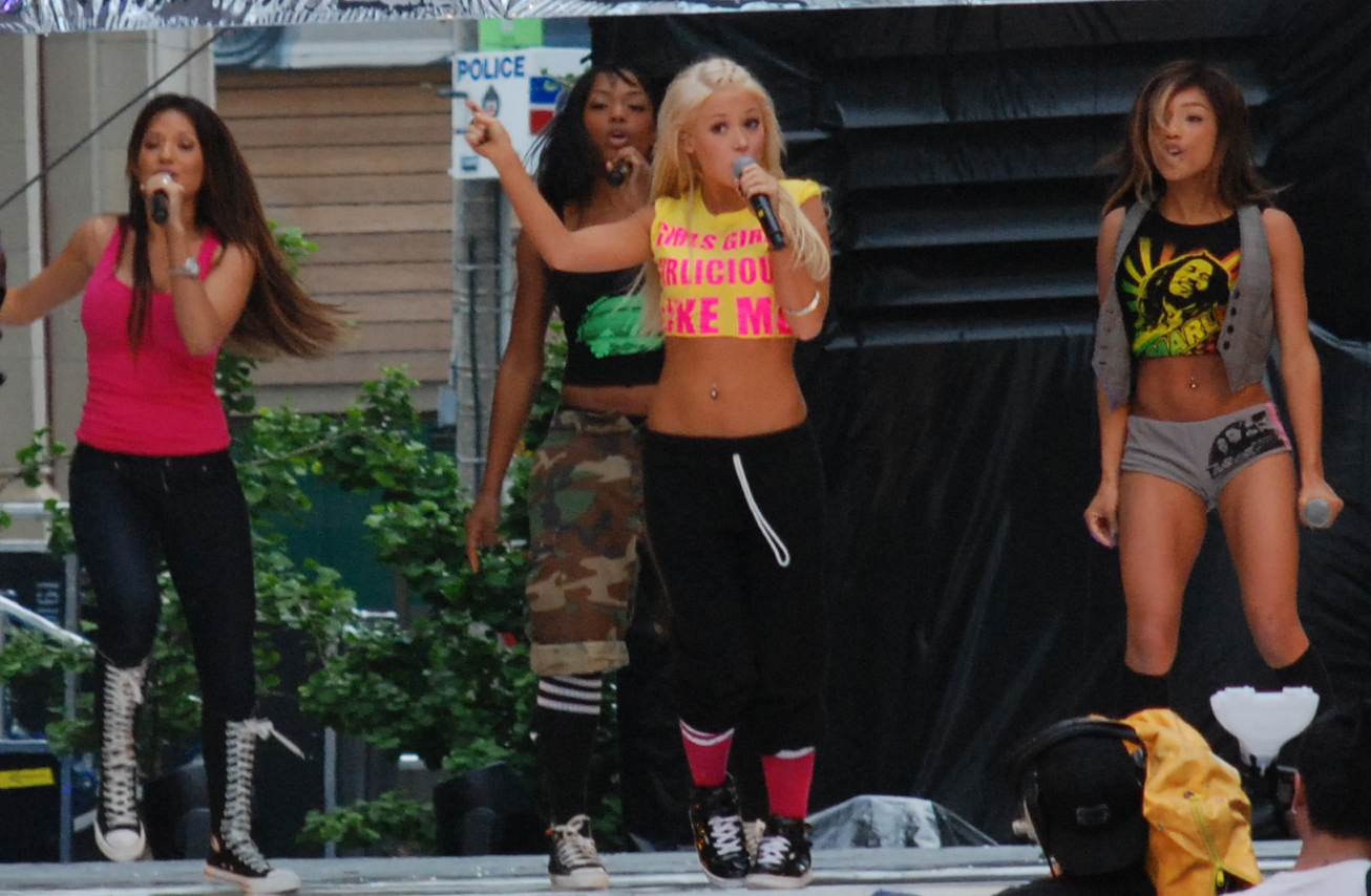 Girlicious rehearsing at the Much Music Video Awards 2008